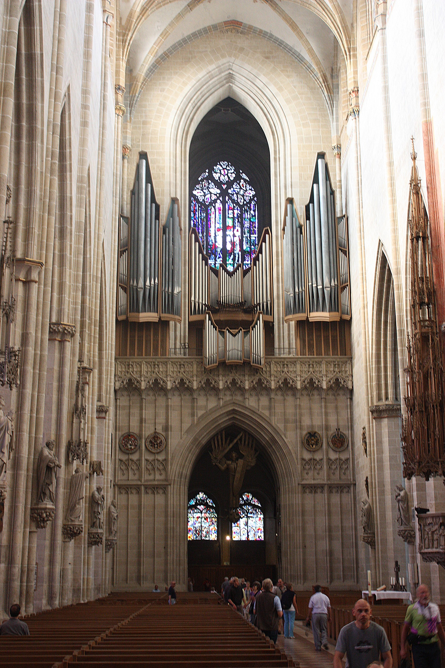 Ulm, Minster, view to the organ